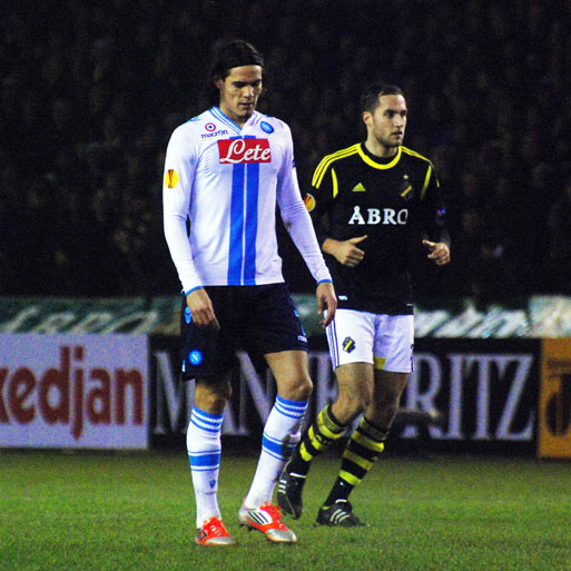 Cavani during AIK-Napoli, UEFA Europa League 2012-2013.